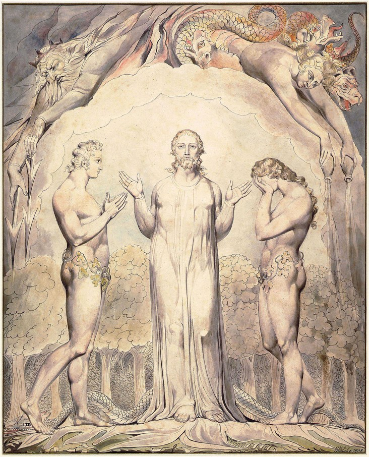 Watercolor Illustration to Milton's Paradise Lost by William Blake